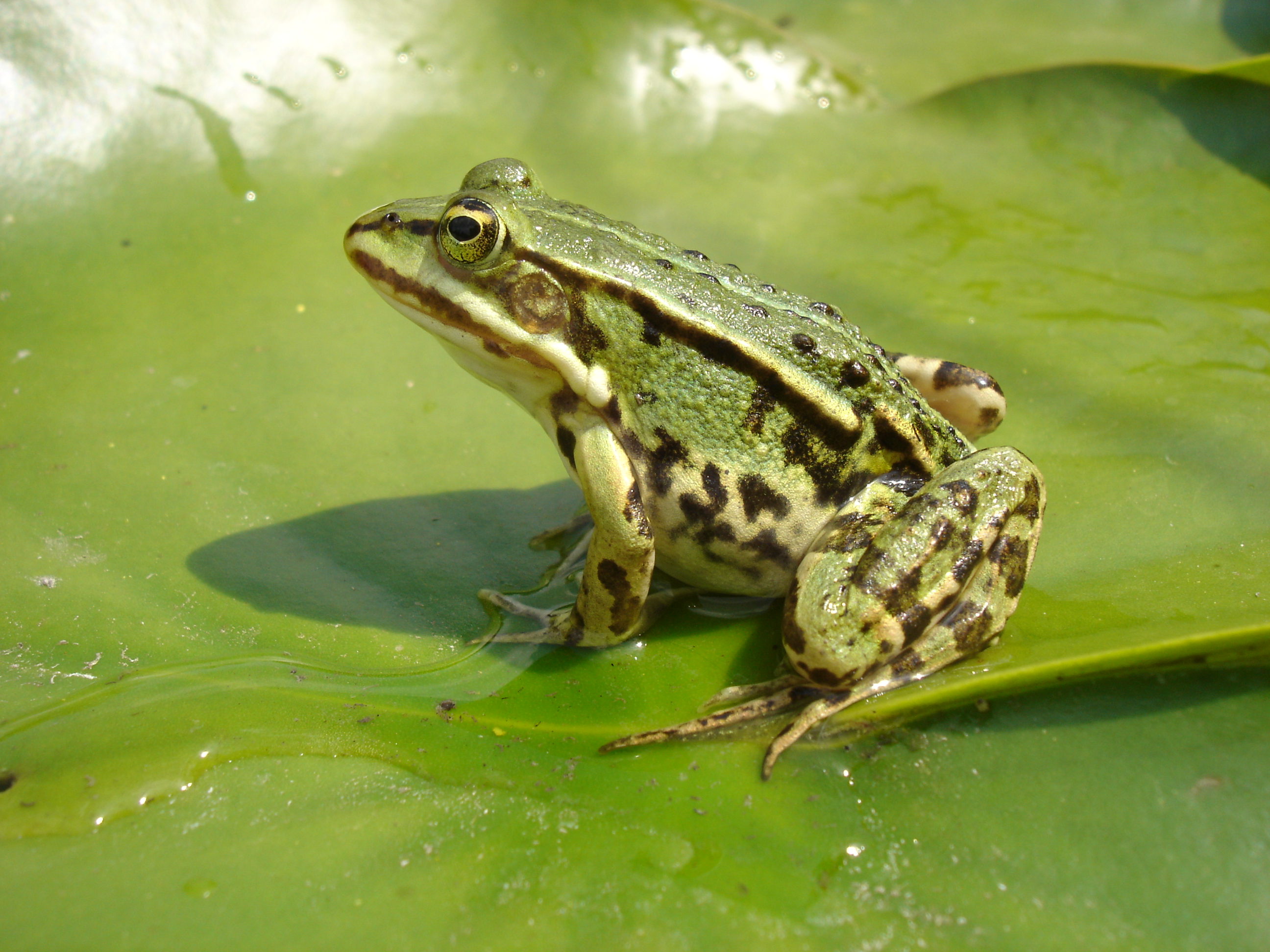 A specimen of Rana esculenta sitting on a nympheae leaf, living in a garden pond.